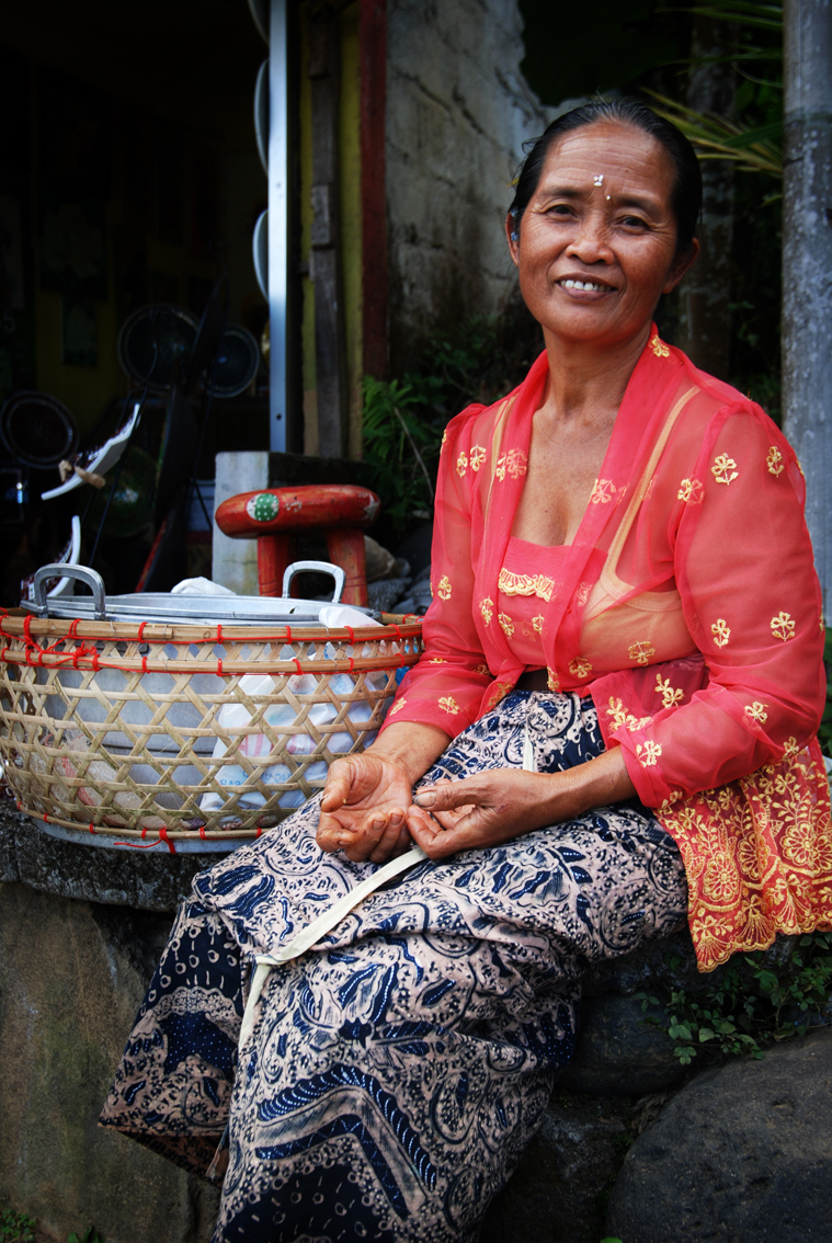 A street vendor taking a break